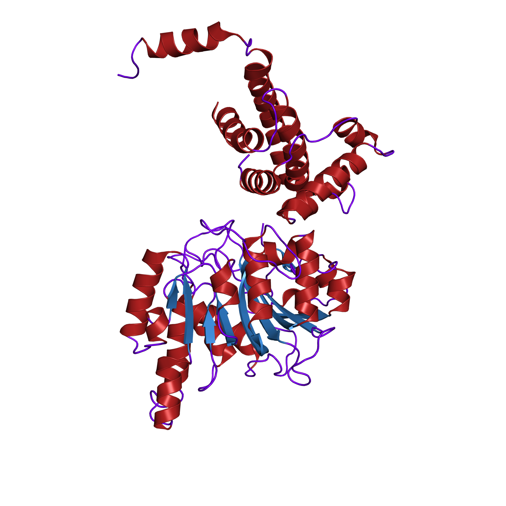 3D structure of protein deposited with PDB code 2ar0.